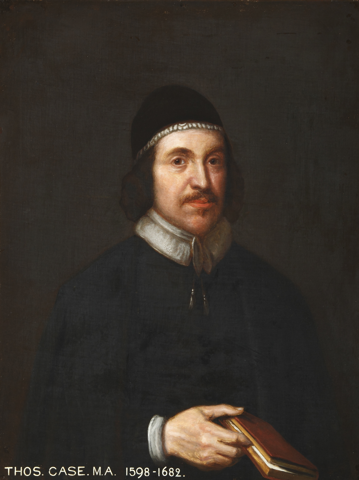 Collection: Mansfield College, University of Oxford